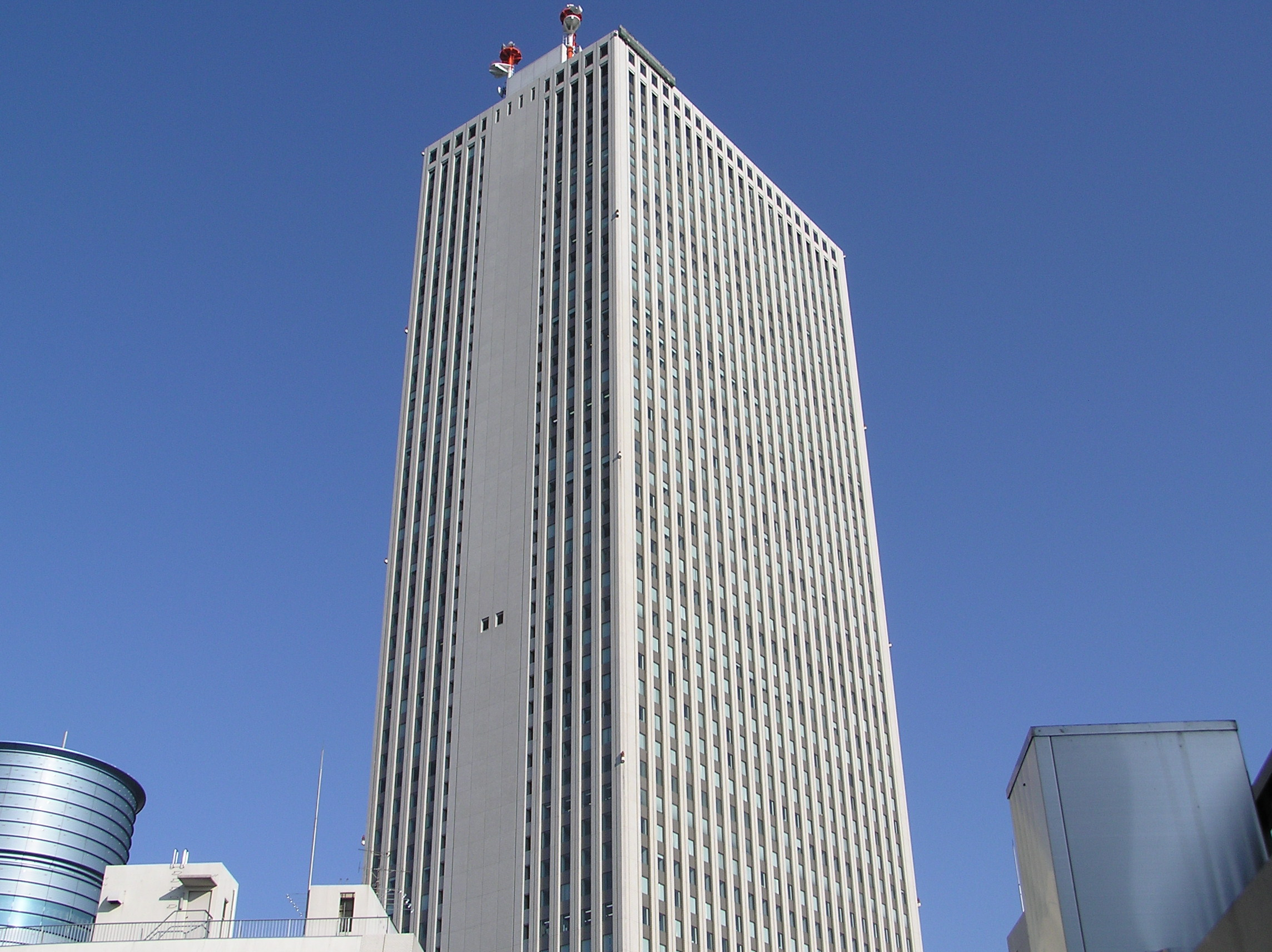 Sunshine 60